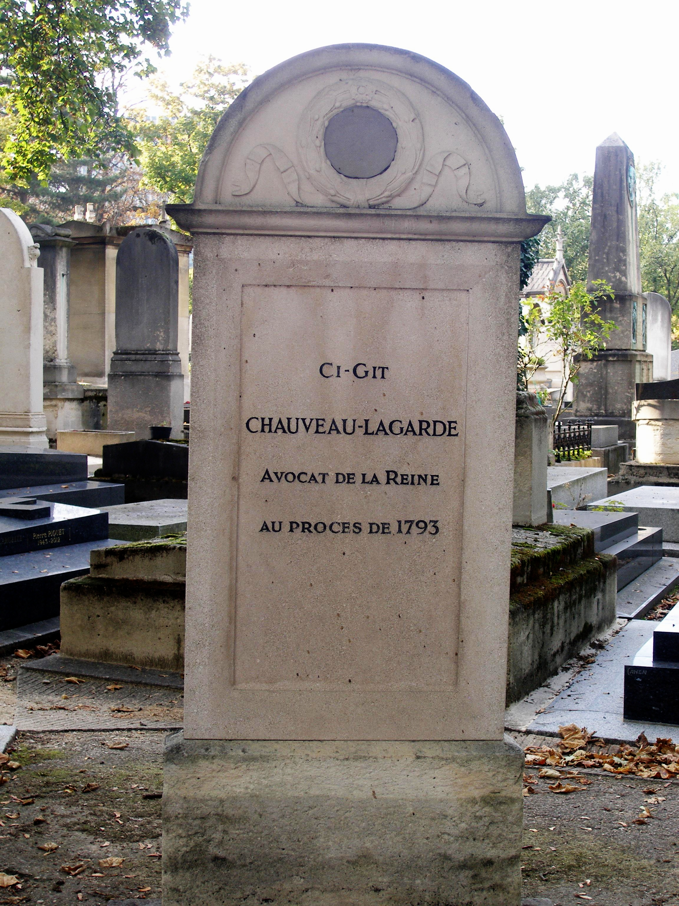 Chaveau-Lagarde's grave in Montparnasse cemetery